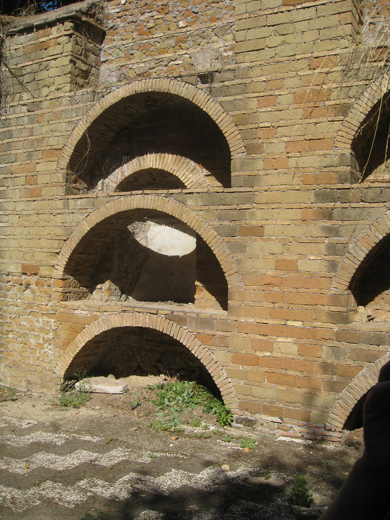 Via Appia (Appian Way), Italy, Jewish catacombs